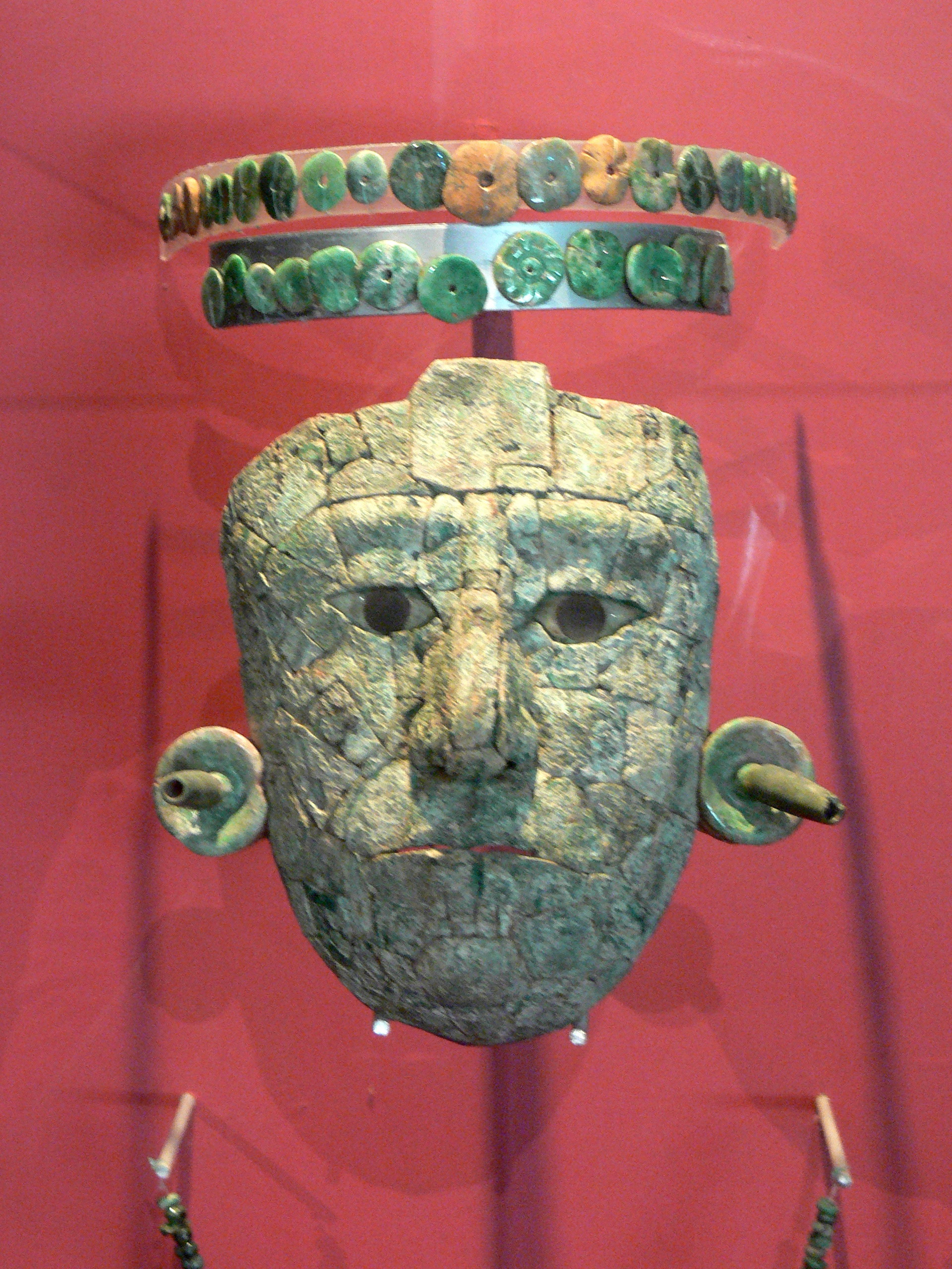 Palenque ( Chiapas ) - Museo del sitio. Funerary mask of the "Red Queen", made of jade plaques. The green colour stands for life renovation.